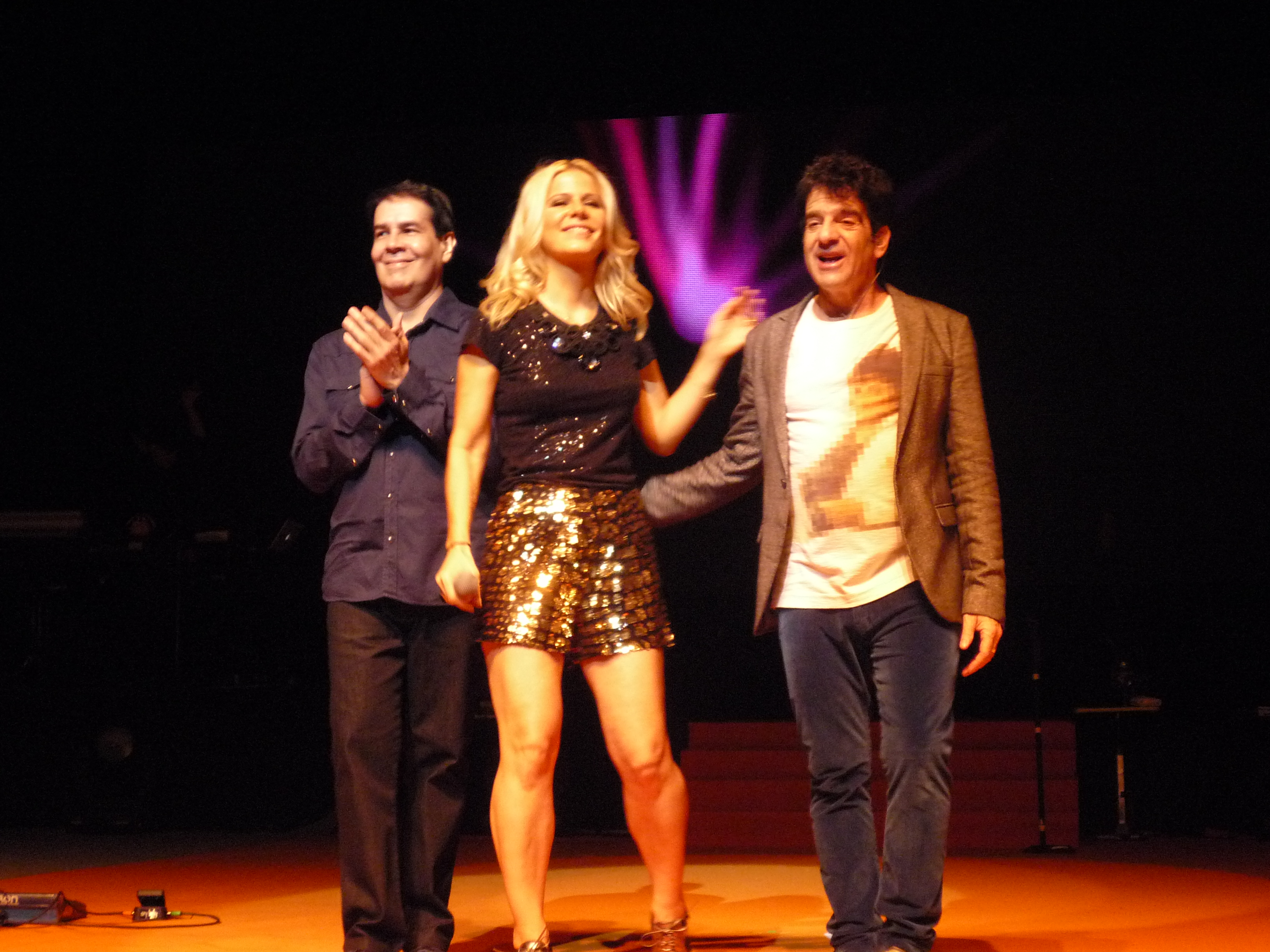 Kid Abelha band on your own concert live in Sao Paulo, Brazil.